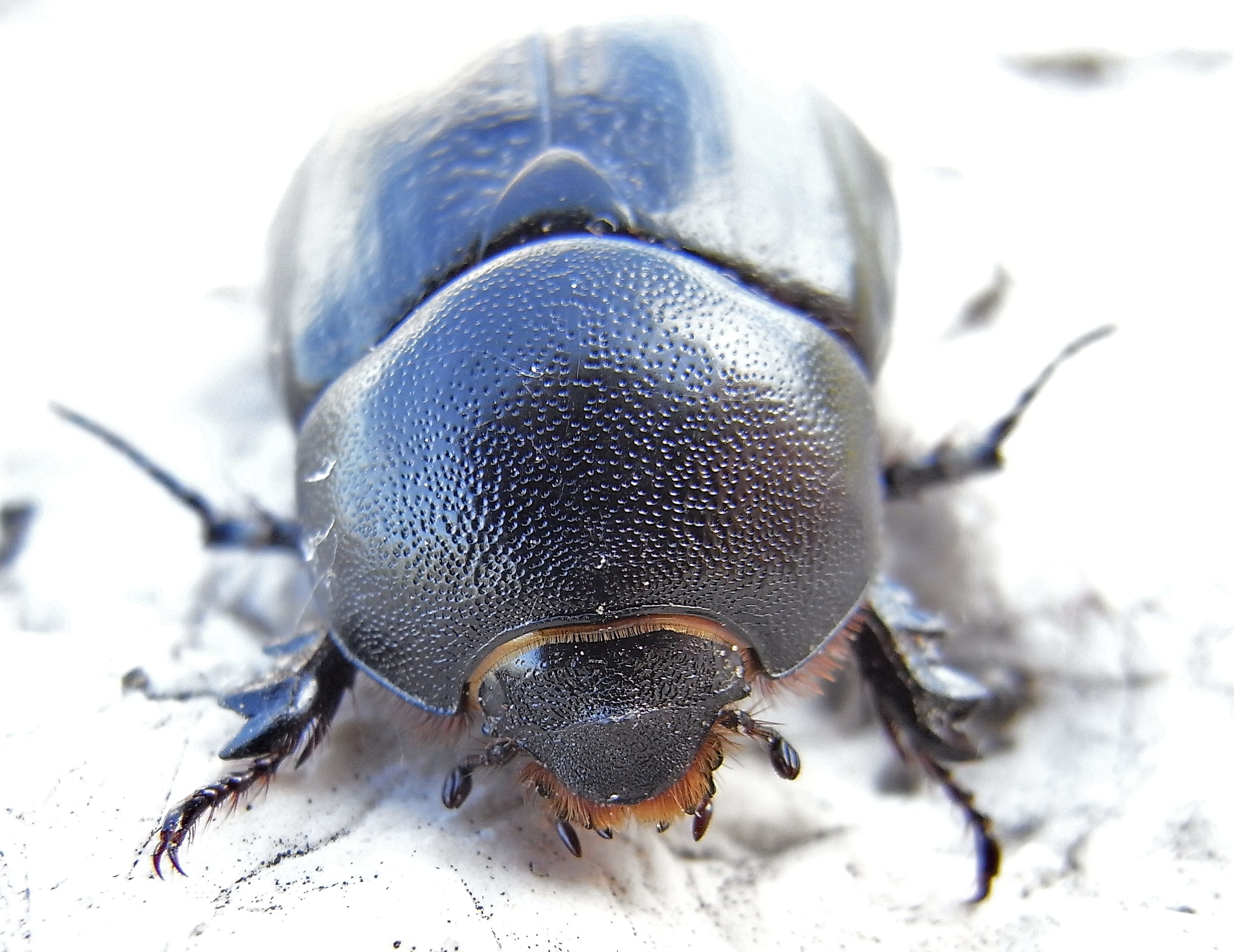 Pentodon idiota from Hungary (Pentodon idiota idiota) from Harkany, at 2010-05-07 Ricoh R8